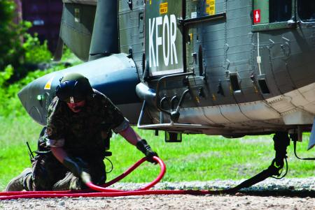 A Swiss Air Force loadmaster connects one of the sling load lines to the AS-332 Super Puma.